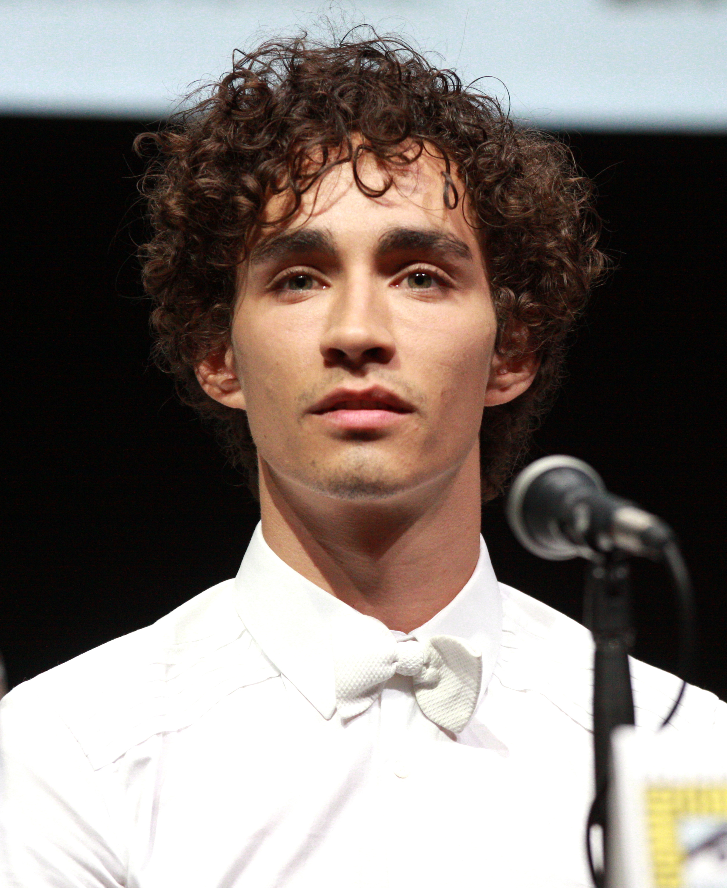 Robert Sheehan at the 2013 San Diego Comic Con International in San Diego, California.